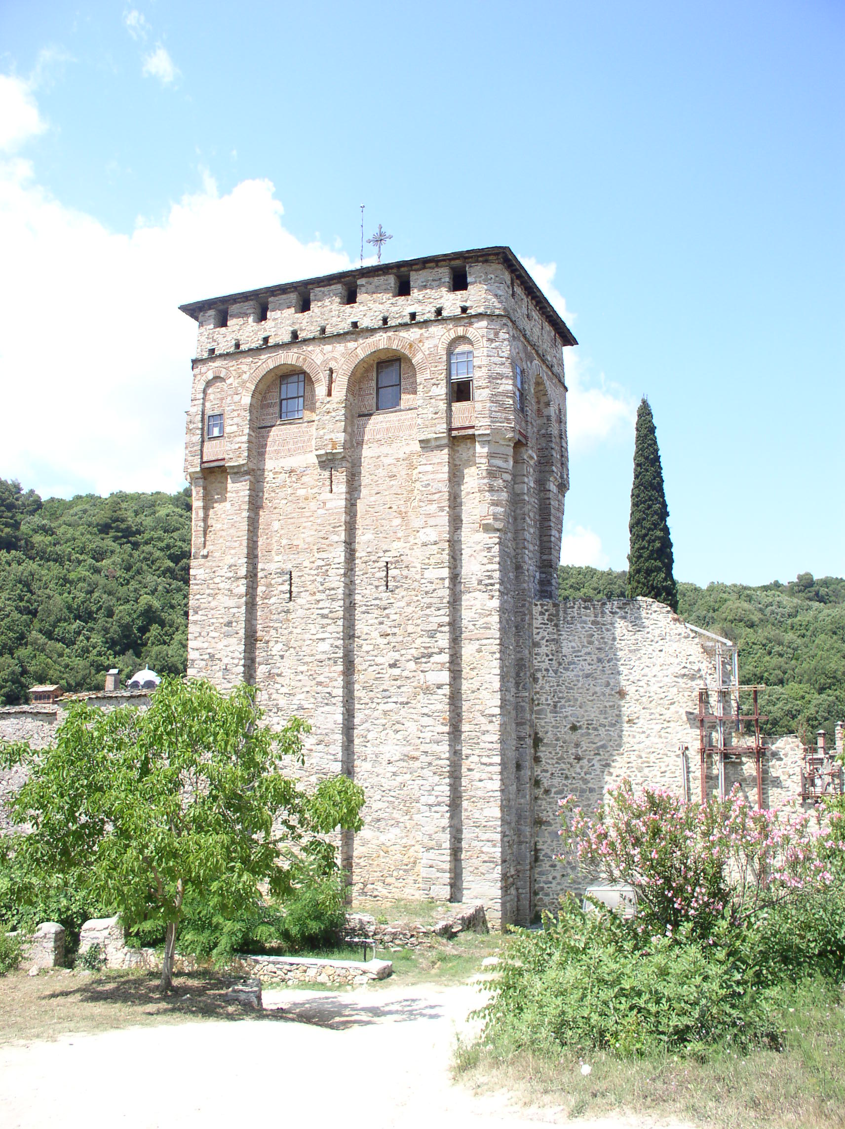 Pirgue (tower) of St. Sava, Hilandar